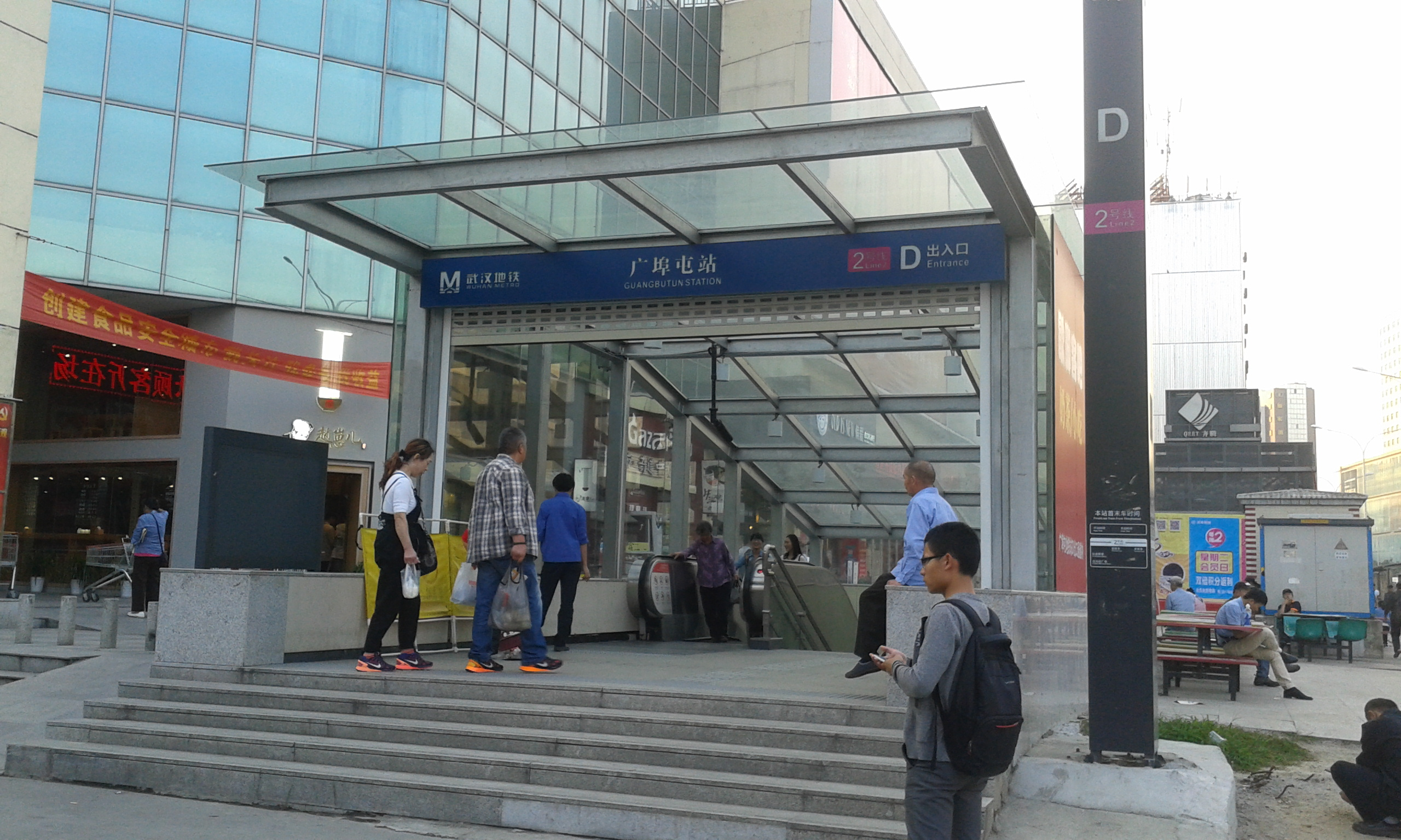 Entrance D of Guangbutun Station, Wuhan Metro